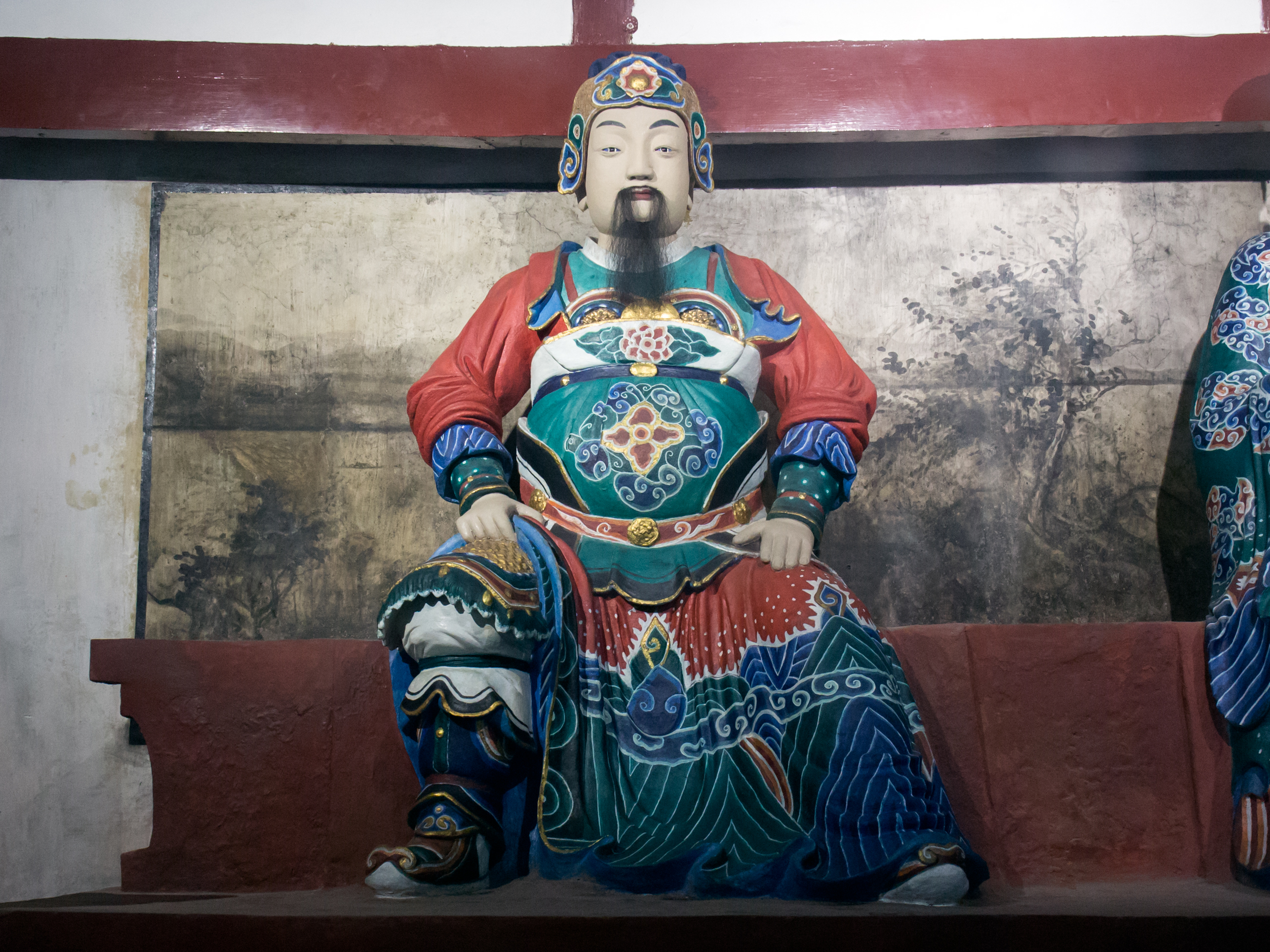 Deng Zhi (鄧芝)